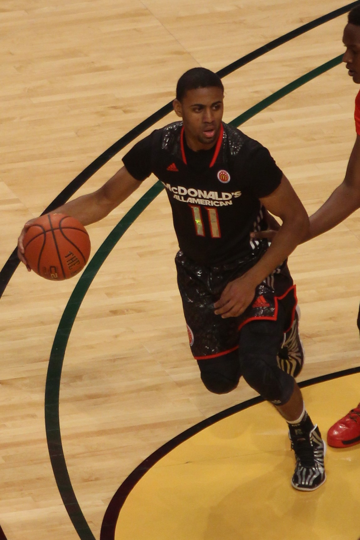 Joel Berry II in the w:2014 McDonald's All-American Boys Game